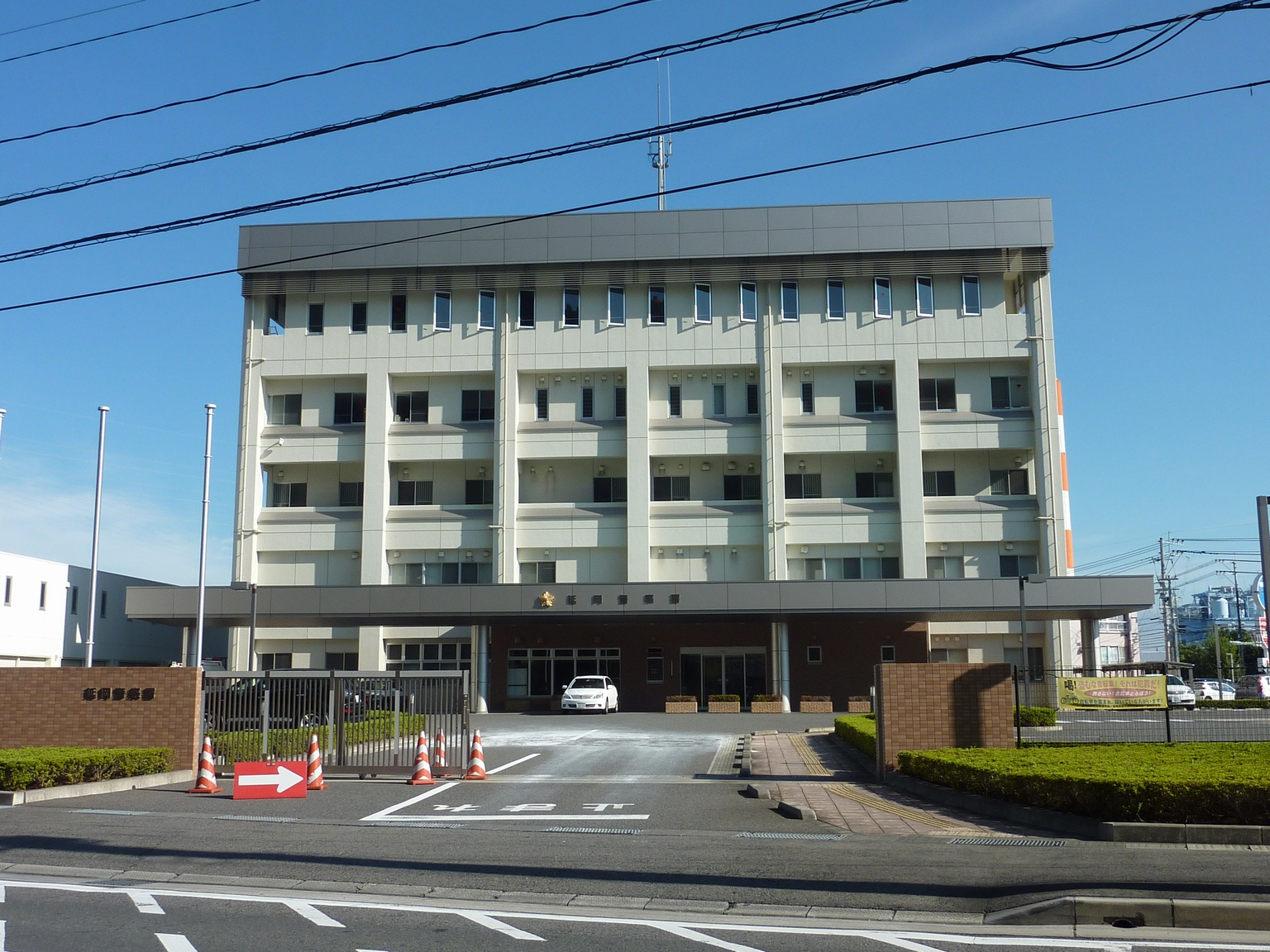 Nobeoka Police Station (Nobeoka City, Miyazaki, Japan)